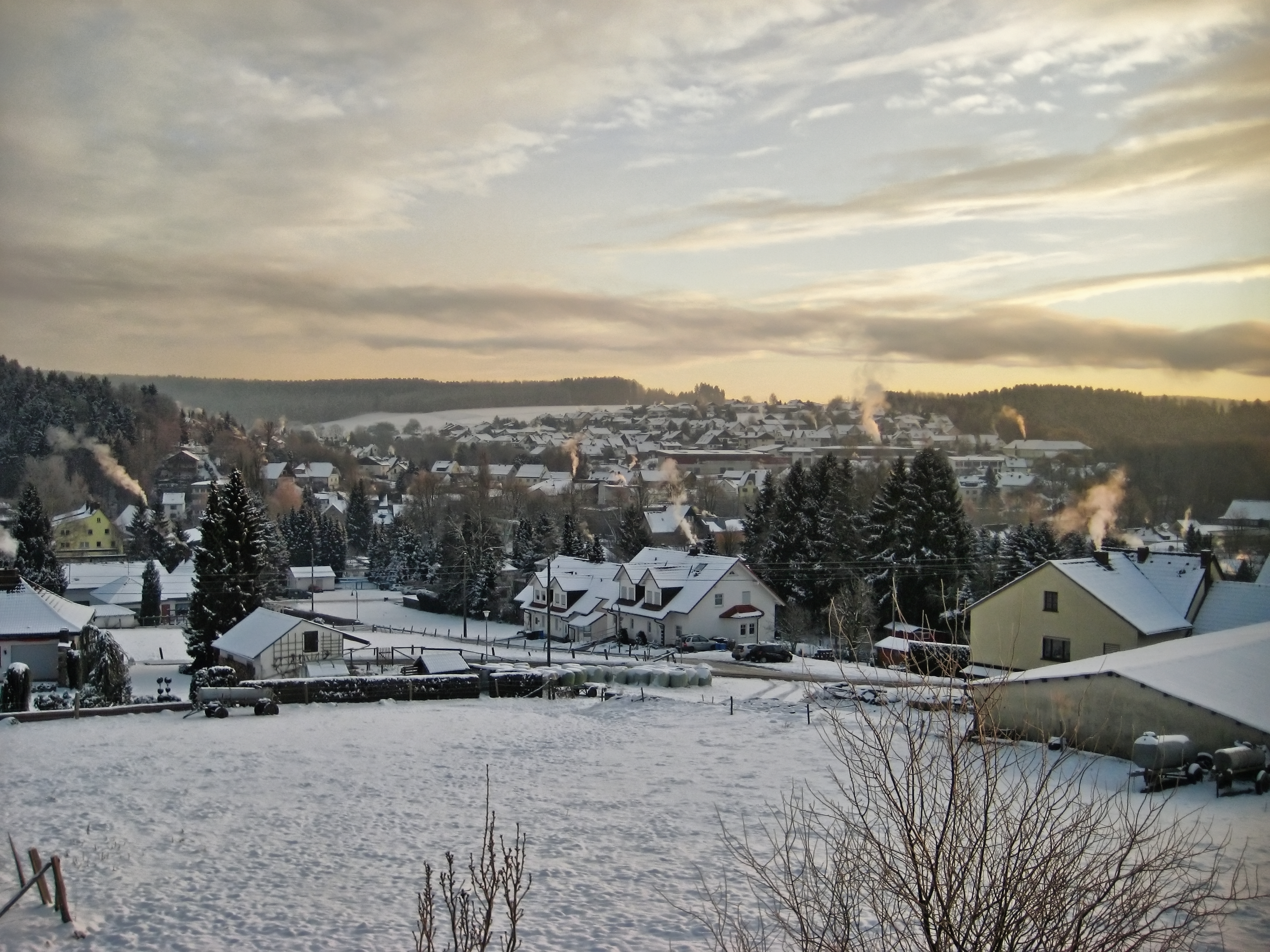 View of Puderbach in Winter